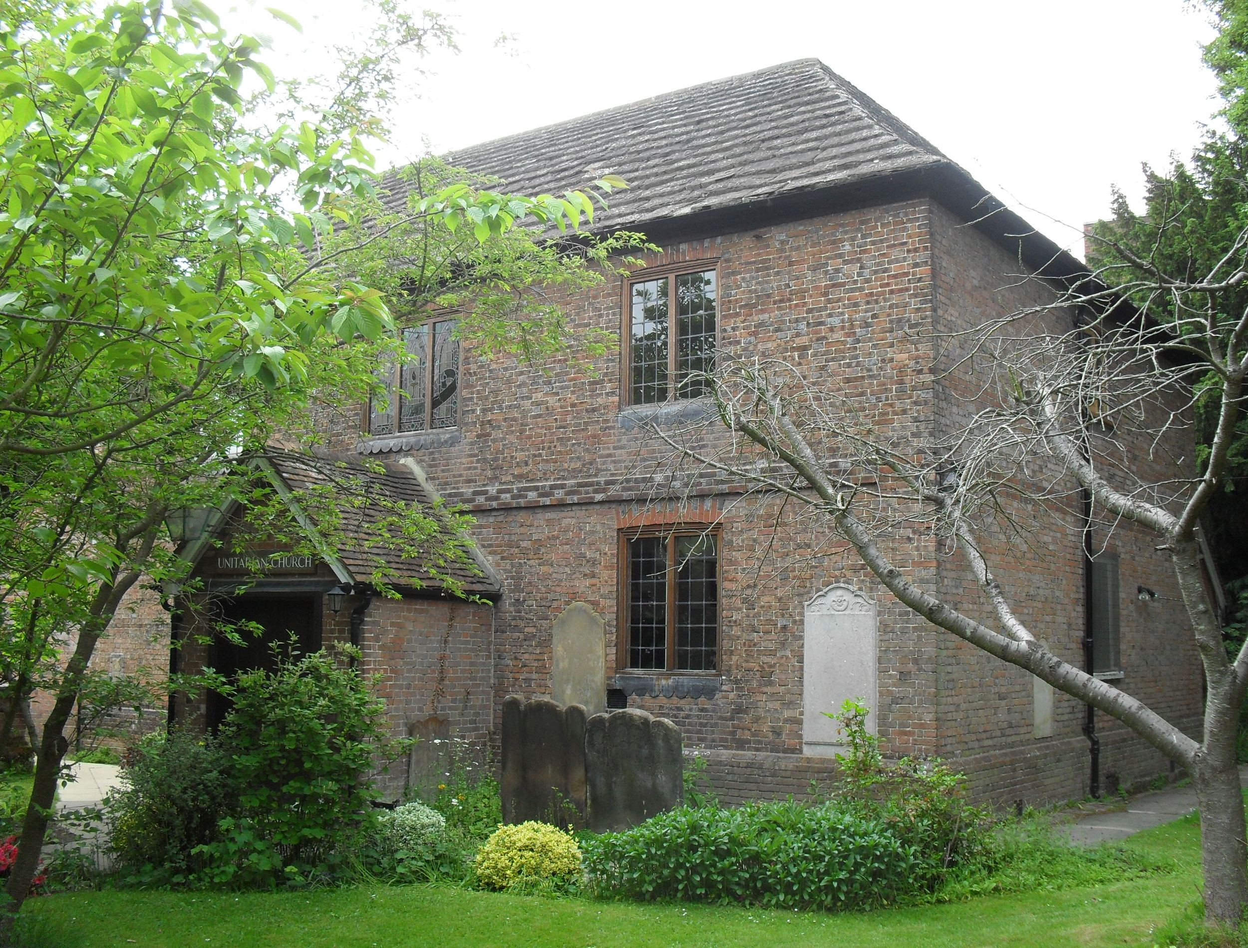 Horsham Unitarian Church, Worthing Road, Horsham, West Sussex, England. Apparently built between 1720 and 1721. Listed at Grade II by English Heritage (IoE Code 298204)